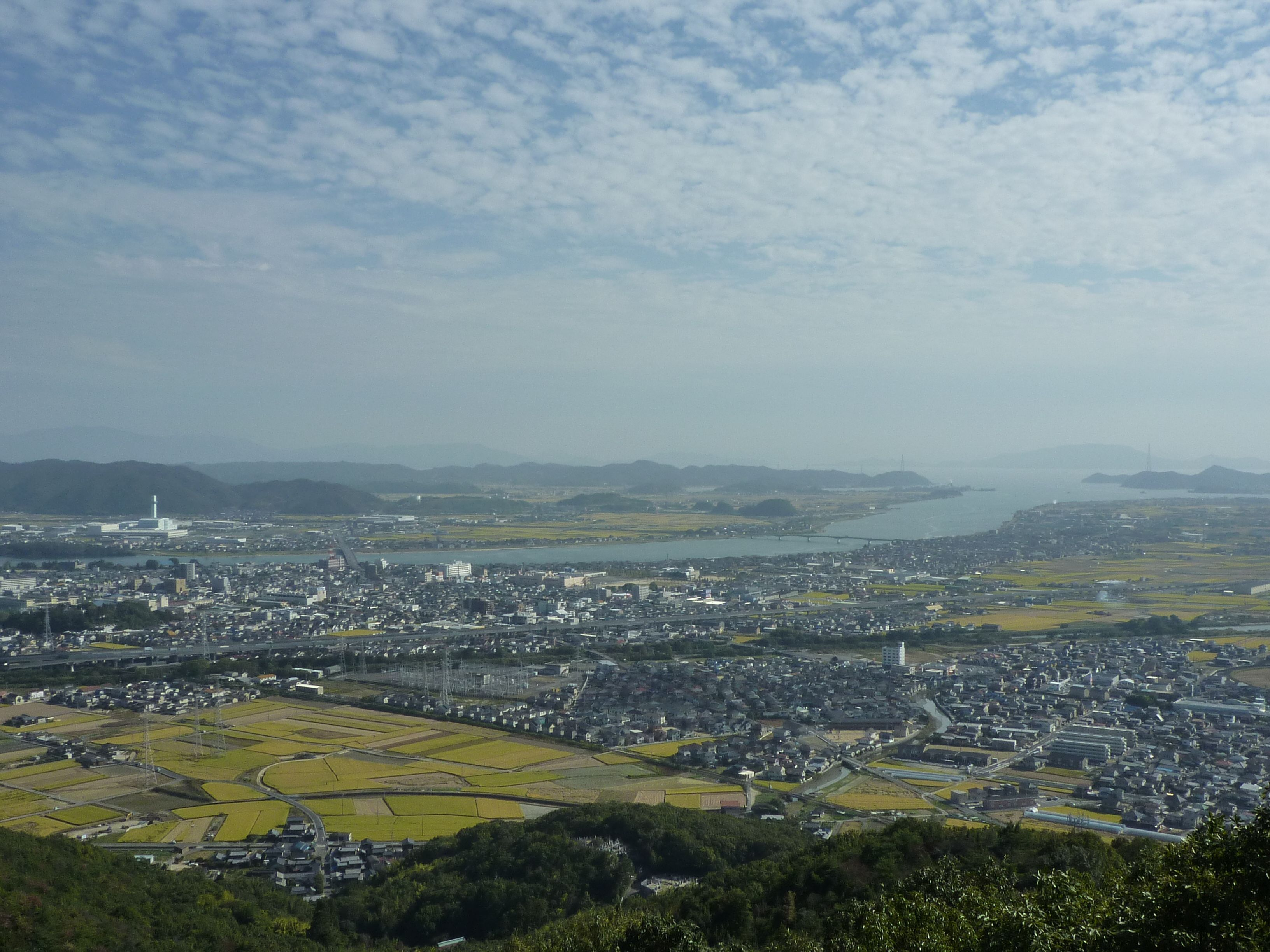 East part of Okayama plain (From the summit of Mt.Keshigo, Okayama City, Okayama Pref, Japan.)